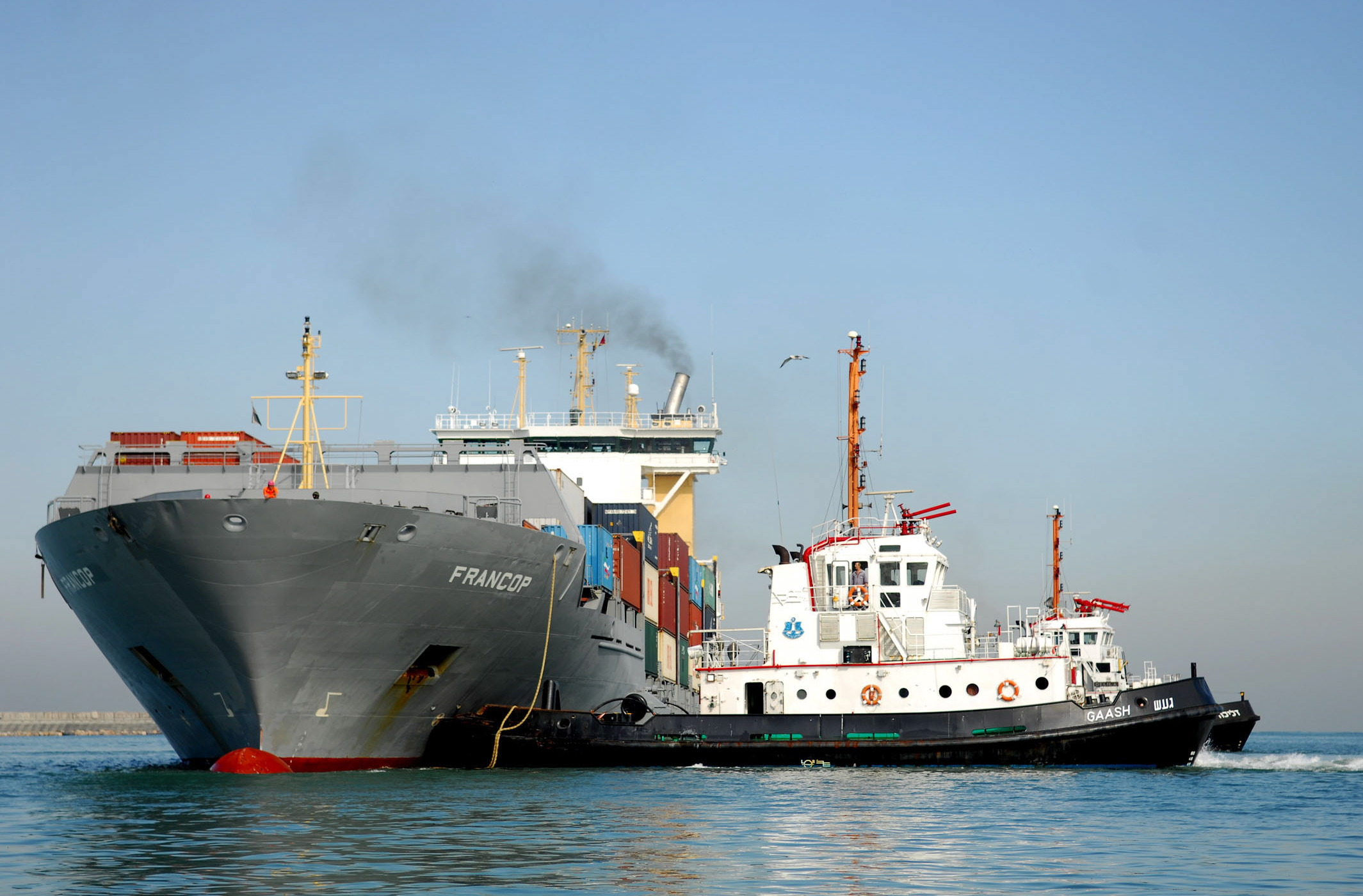 November 4, 2009 Israel Navy forces stopped the cargo ship "Francop" and found missiles, rockets and other weaponry. The ship was brought to the Ashdod port for inspection. Pictured here: The "Francop" cargo ship being led to the Ashdod Port.